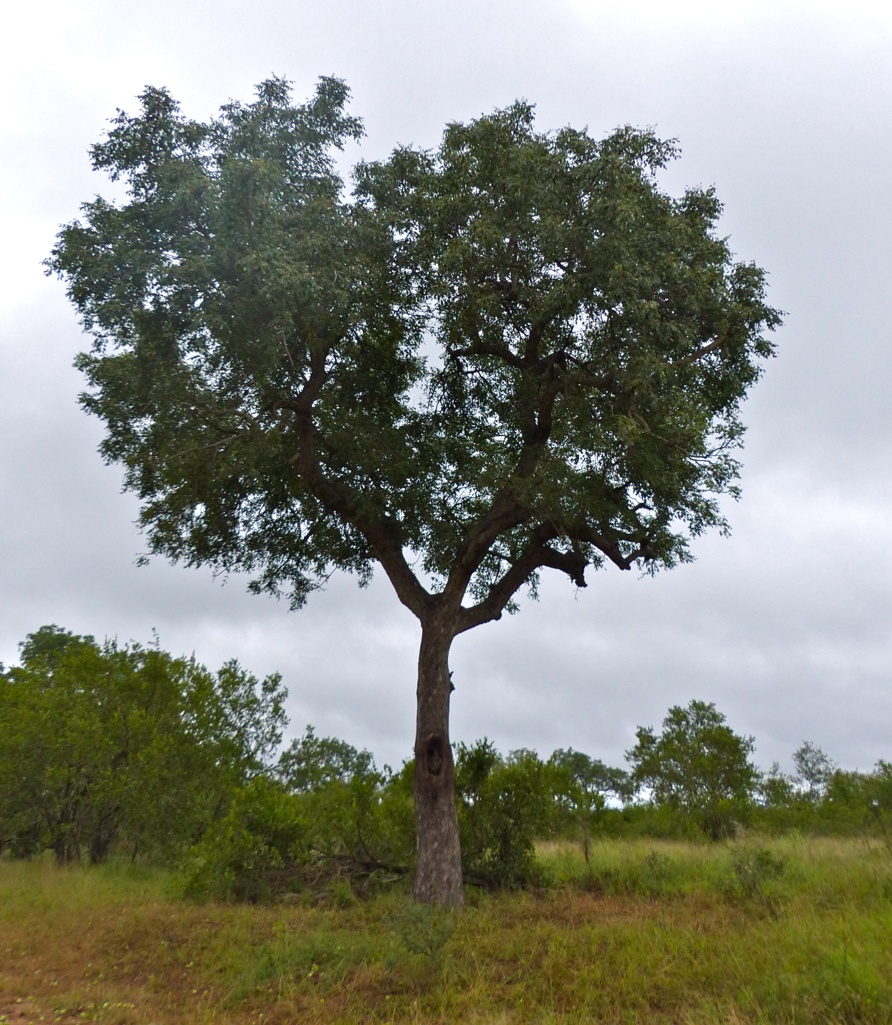 H5 Road South of Lower Sabie, Kruger NP, SOUTH AFRICA